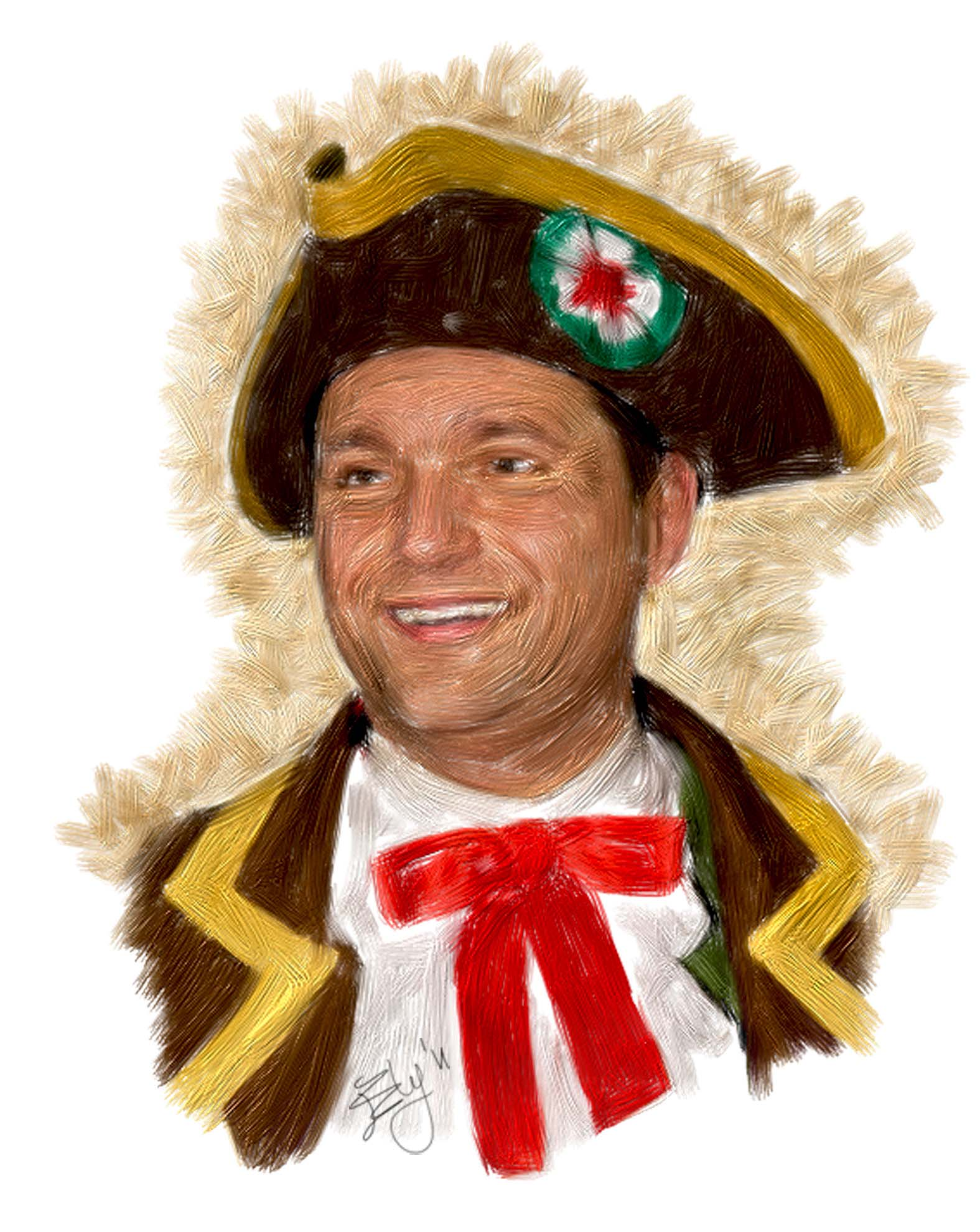 Bicciolano